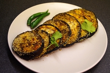 Sliced eggplants marinated in Indian spices and griddle fried